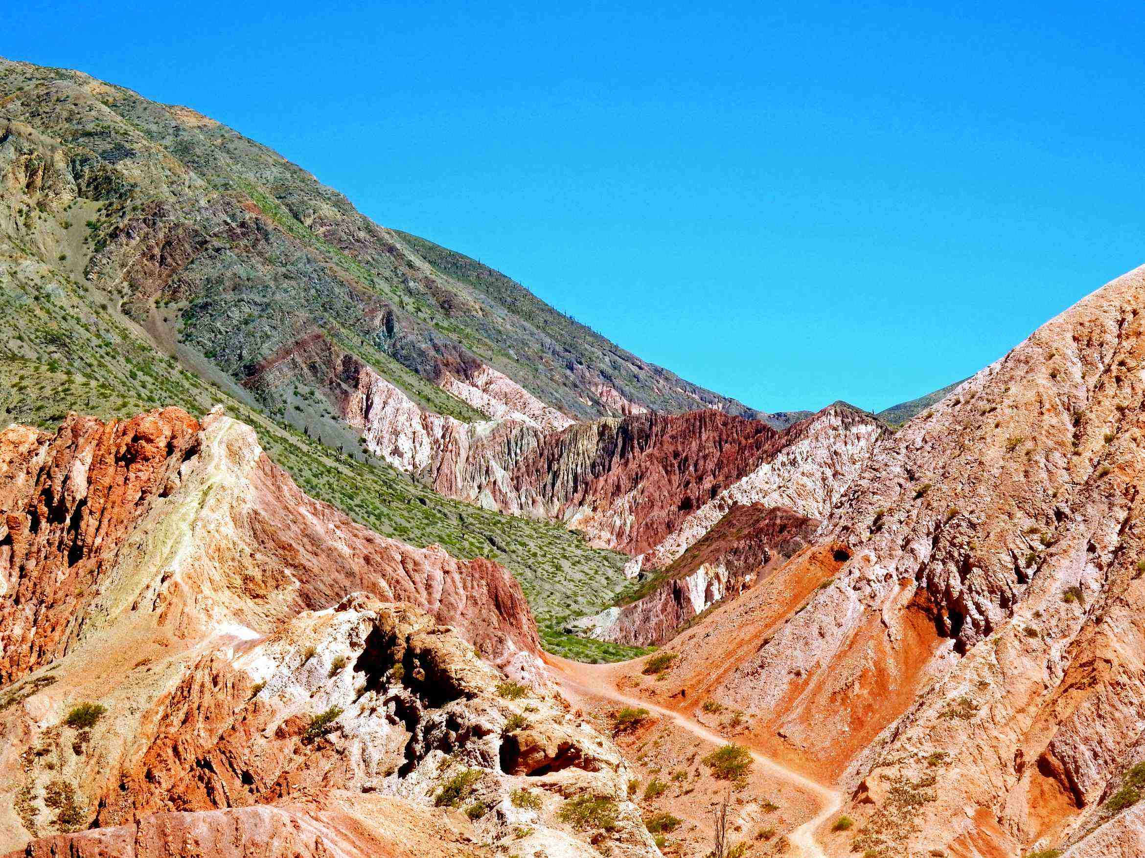 Trail through the coloured rocks. Wanderweg durch farbige Felsformationen des Cerro de los Siete Colores in Purmamarca. You're welcome to use this picture free of charge, as long as you follow the license terms. As a matter of courtesy a link (dofollow links are welcome!) to is much appreciated. Thank you! ————————–—–—–—–—–—–—–—–—–—–—–—–—–—–—– Du kannst dieses Bild gemäß der Lizenzbestimmungen unentgeltlich nutzen. Über eine Verlinkung (dofollow am liebsten) auf freuen wir uns. Danke!